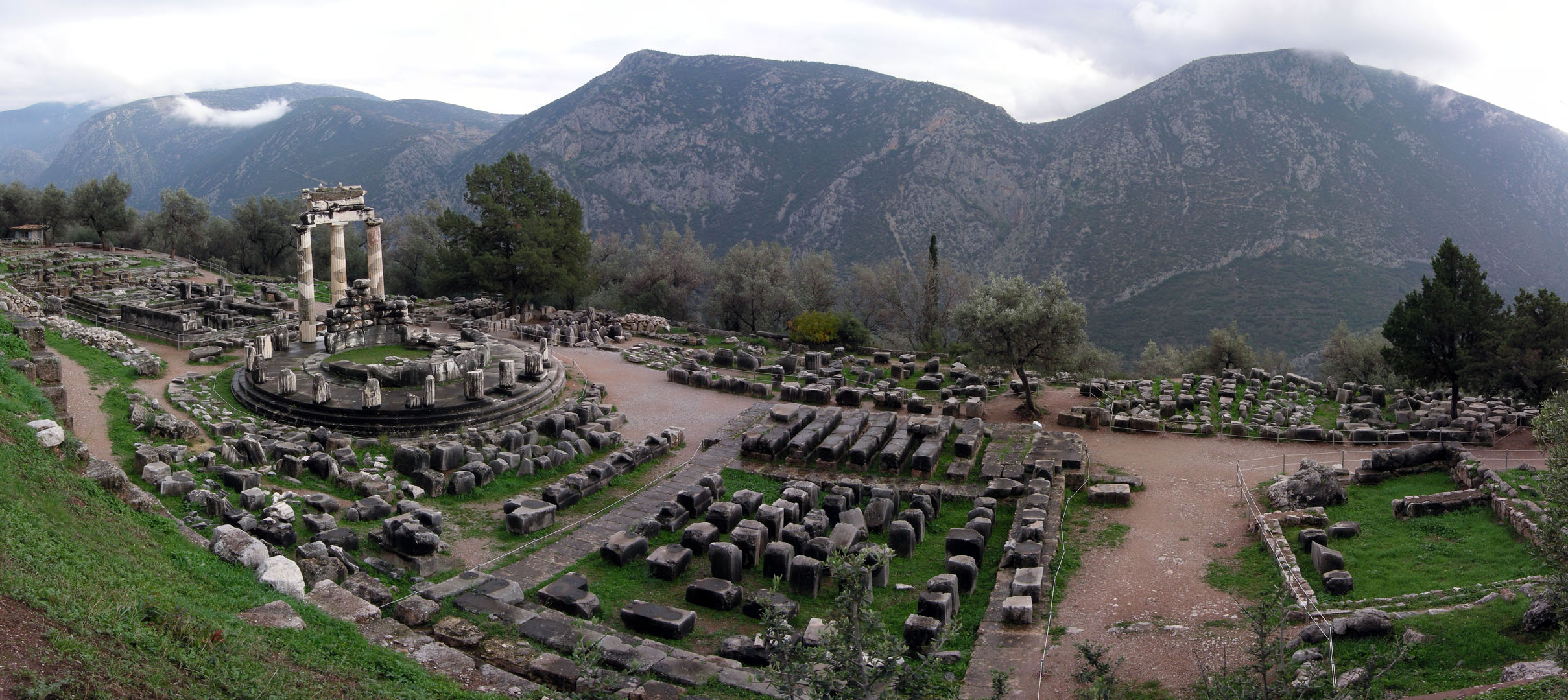 Athina Pronaia Sanctuary at Delphi, Greece